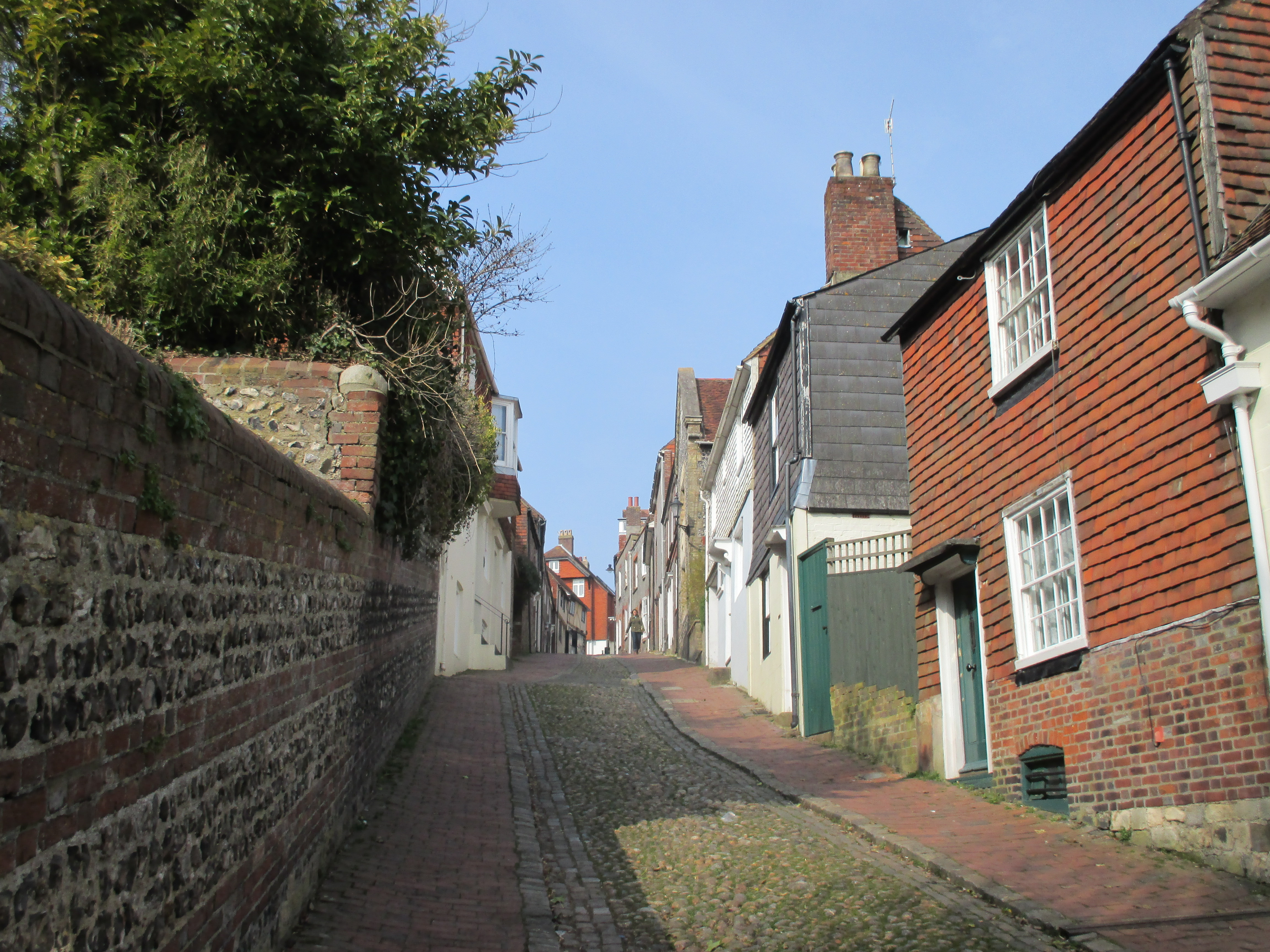 Keere Street, Lewes, East Sussex, photographed from the south-east